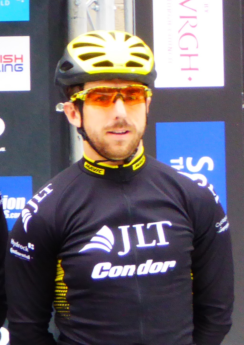 Russell Downing, pictured at Round 3 of the Pearl Izumi Tour Series in Edinburgh on 19 May 2016.